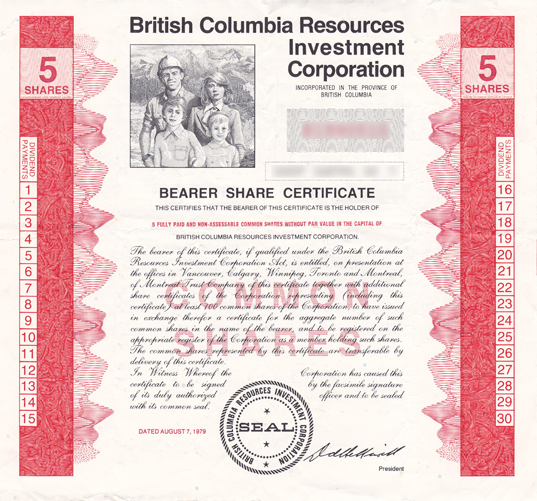 BC Resource Investment Corporation - Bearer Share Certificate - 5 Shares - Scanned by Prowulf